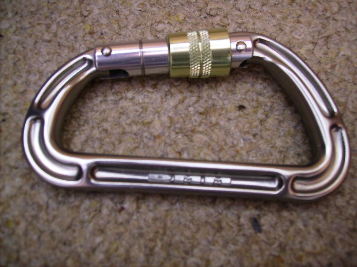 Screw Locking Karabiner Manufactured by DMM Wales